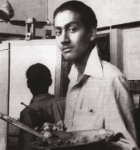 Safiuddin Ahmed when he a student at Calcutta Government School of Art.